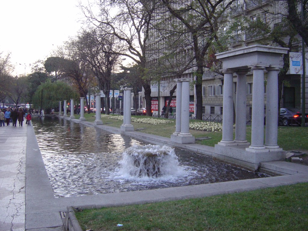 Partial view of Paseo de Recoletos (boulevard) in Madrid (Spain).